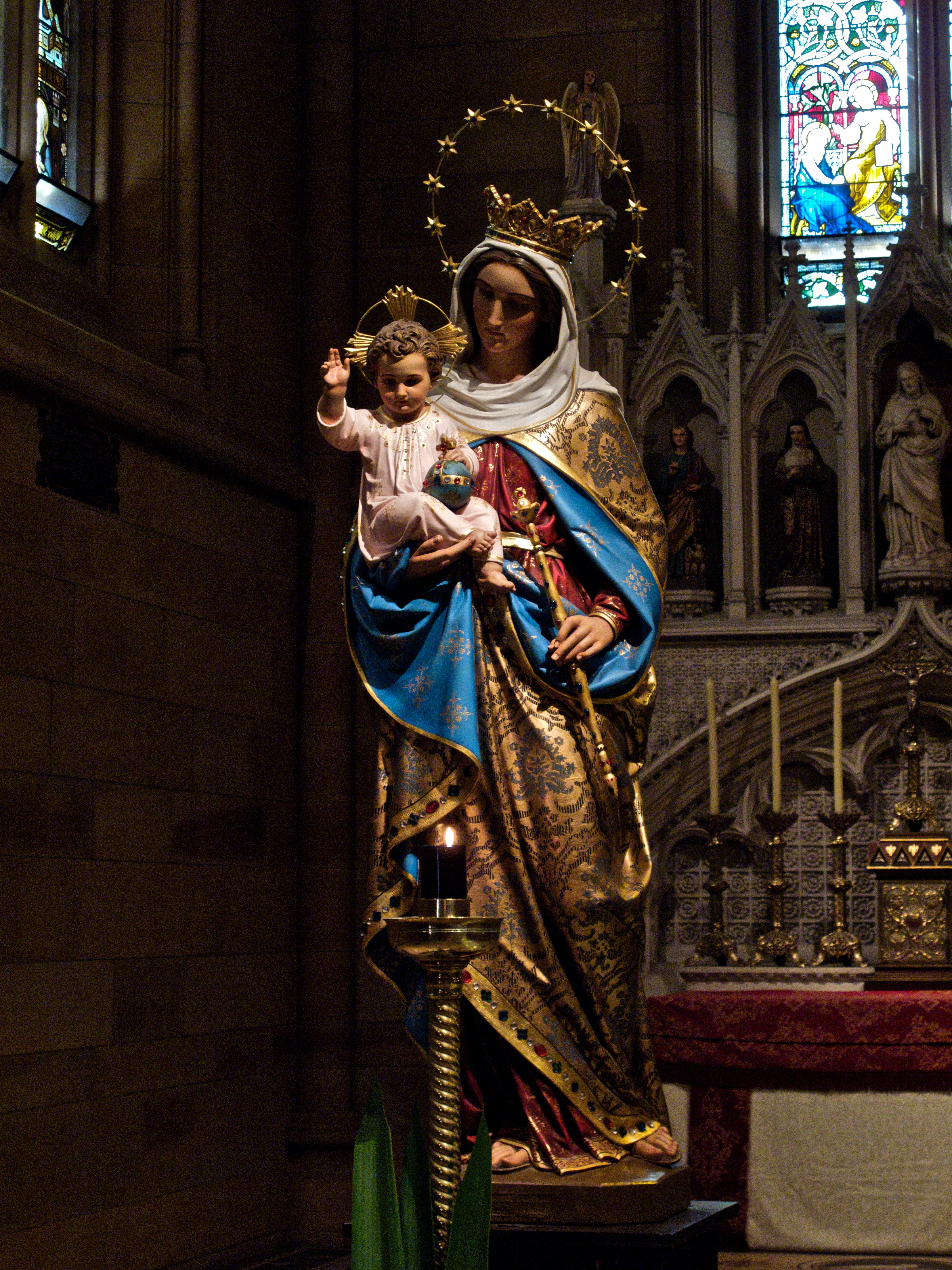 A statue of the Virgin Mary and Child at St Mary's Cathedral, Sydney.